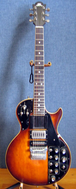 Roland Guitar synthesizer model GR500